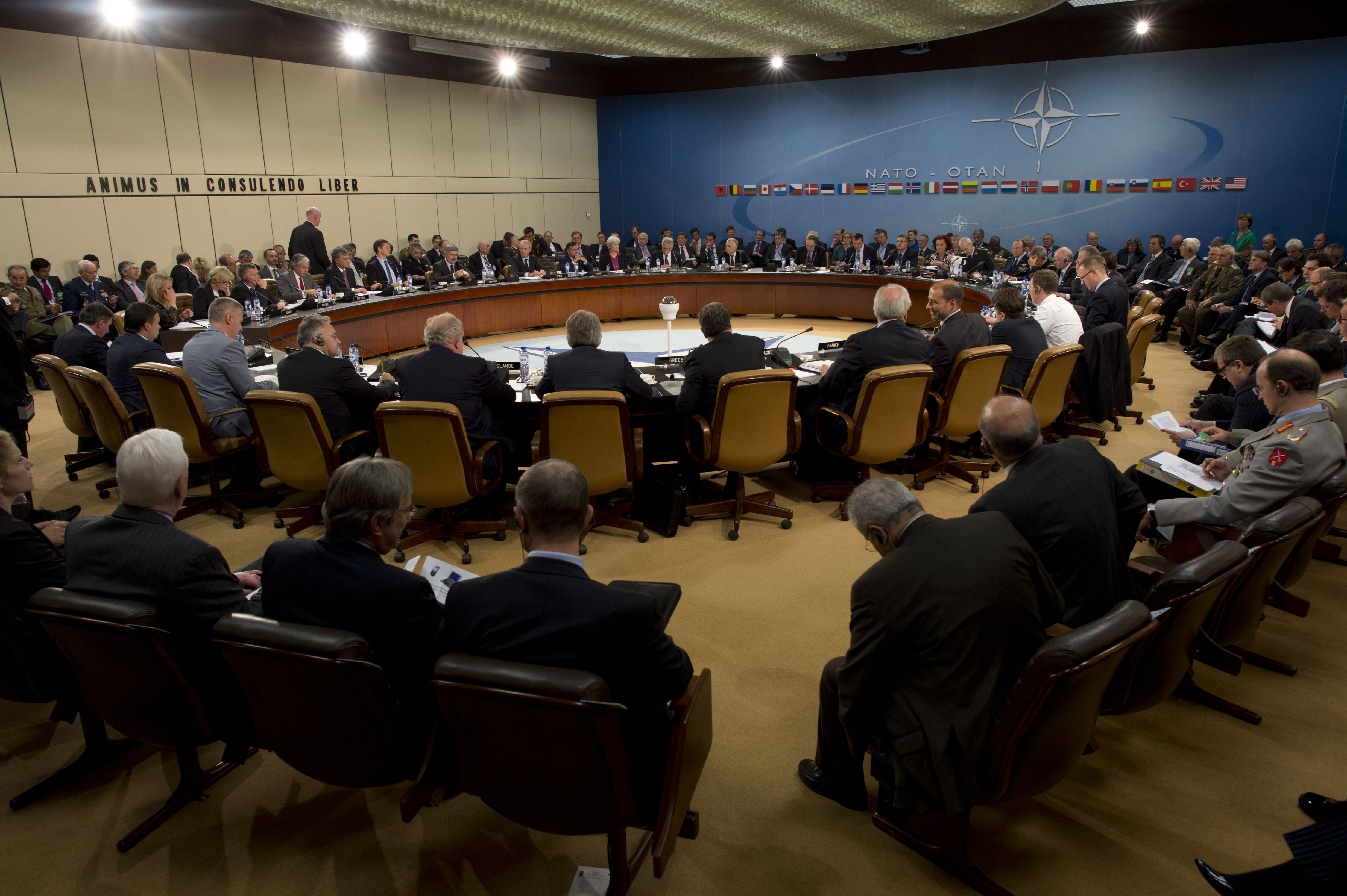 U.S. Secretary of Defense Chuck Hagel attends a North Atlantic Council meeting at NATO headquarters in Brussels June 4, 2013.